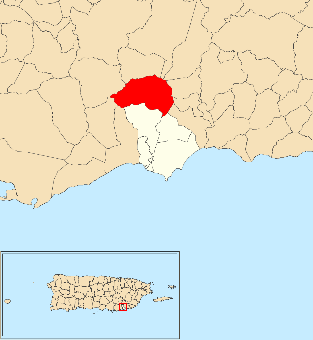 Yaurel, Arroyo, Puerto Rico locator map